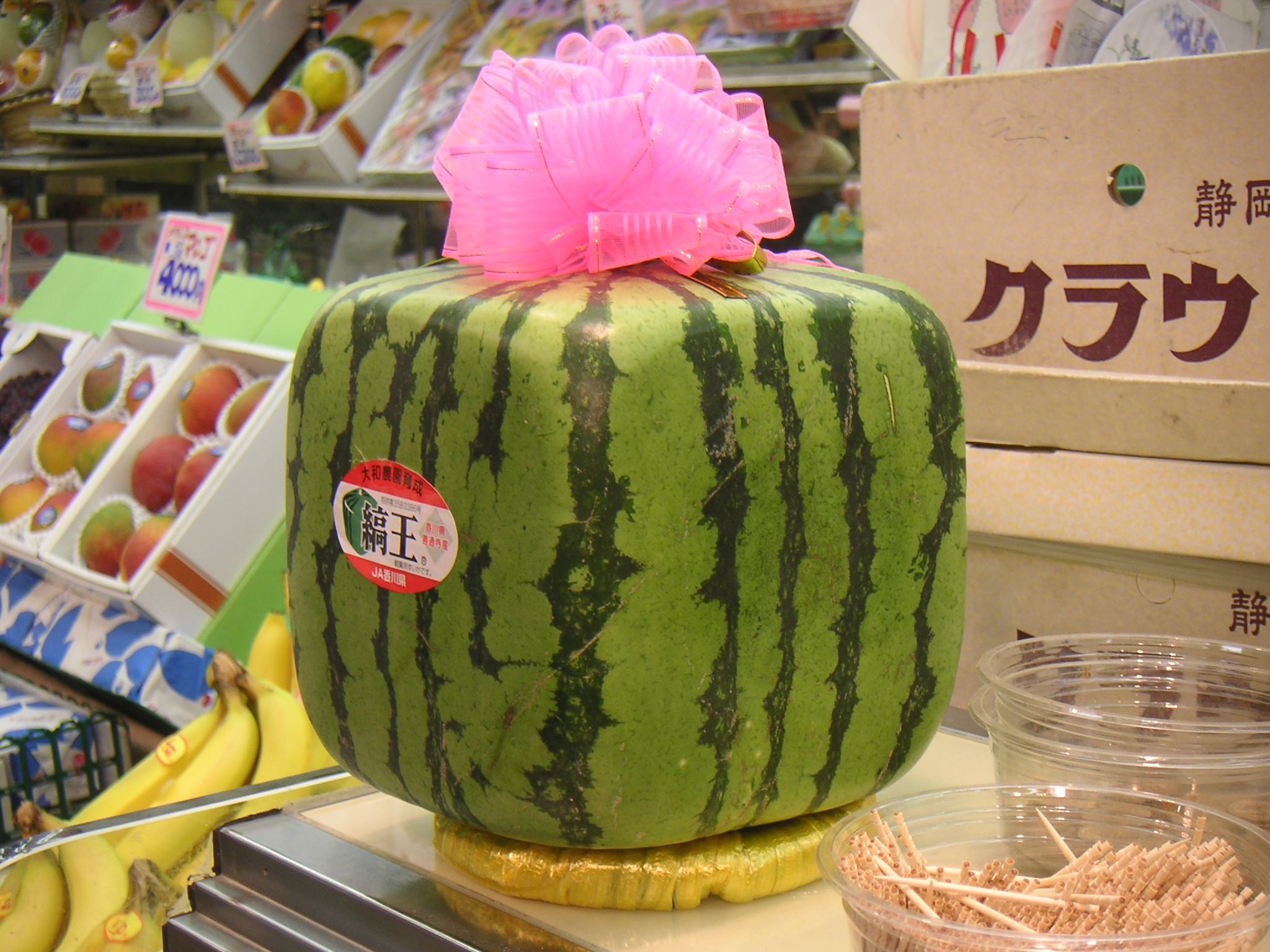 "Yes. $300 for a watermelon. And it is a cube. And it cost $300."$300